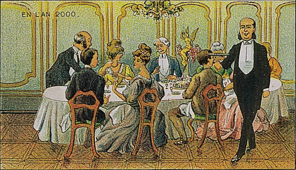 France in 2000 year (XXI century). A Chemical Dinner. France, paper card.